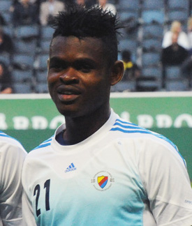 Djurgårdens IF Player Godsway Donyoh.